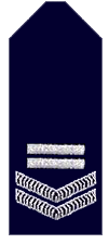 rank epaulette of a leading senior constable of the New South Wales police force